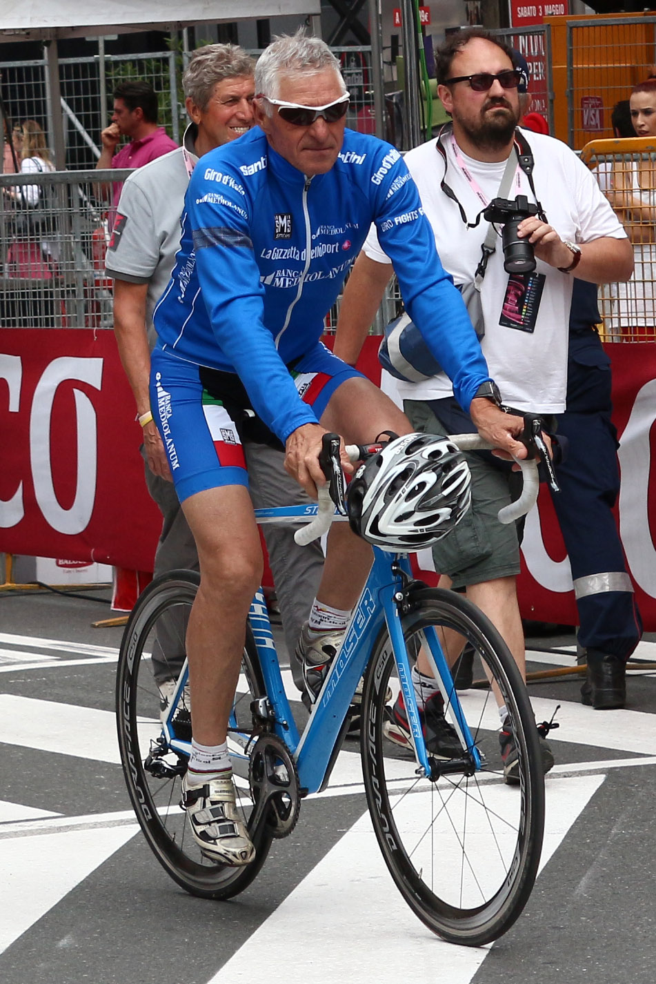 Francesco Moser at Giro d'Italia 2014